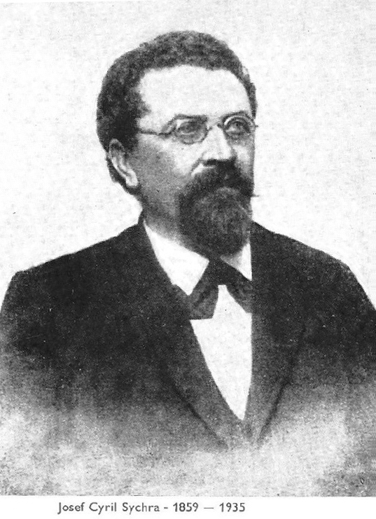 Czech composer Josef Cyrill Sychra (1859–1935)